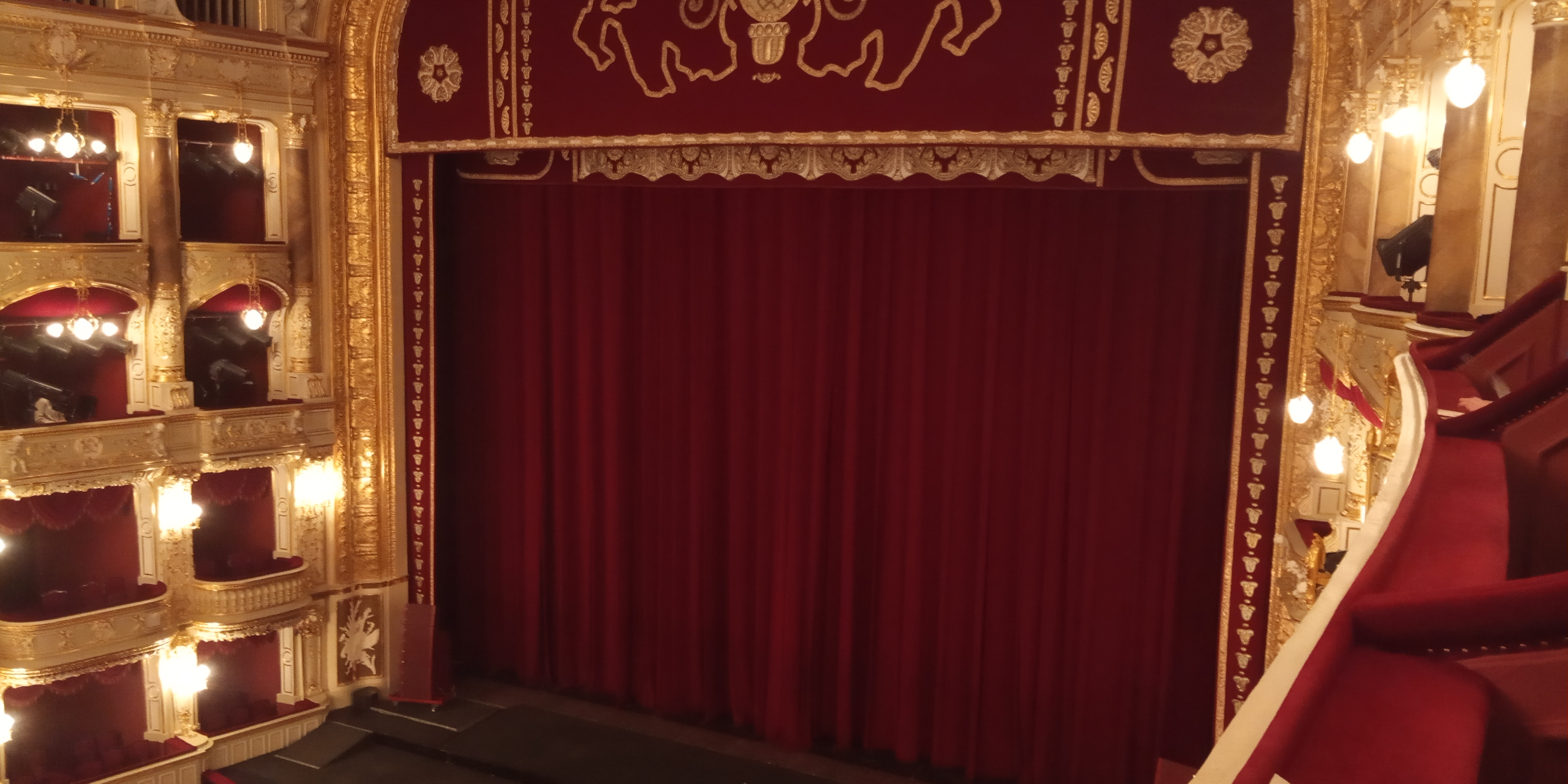 Odessa Opera and Ballet Theater.